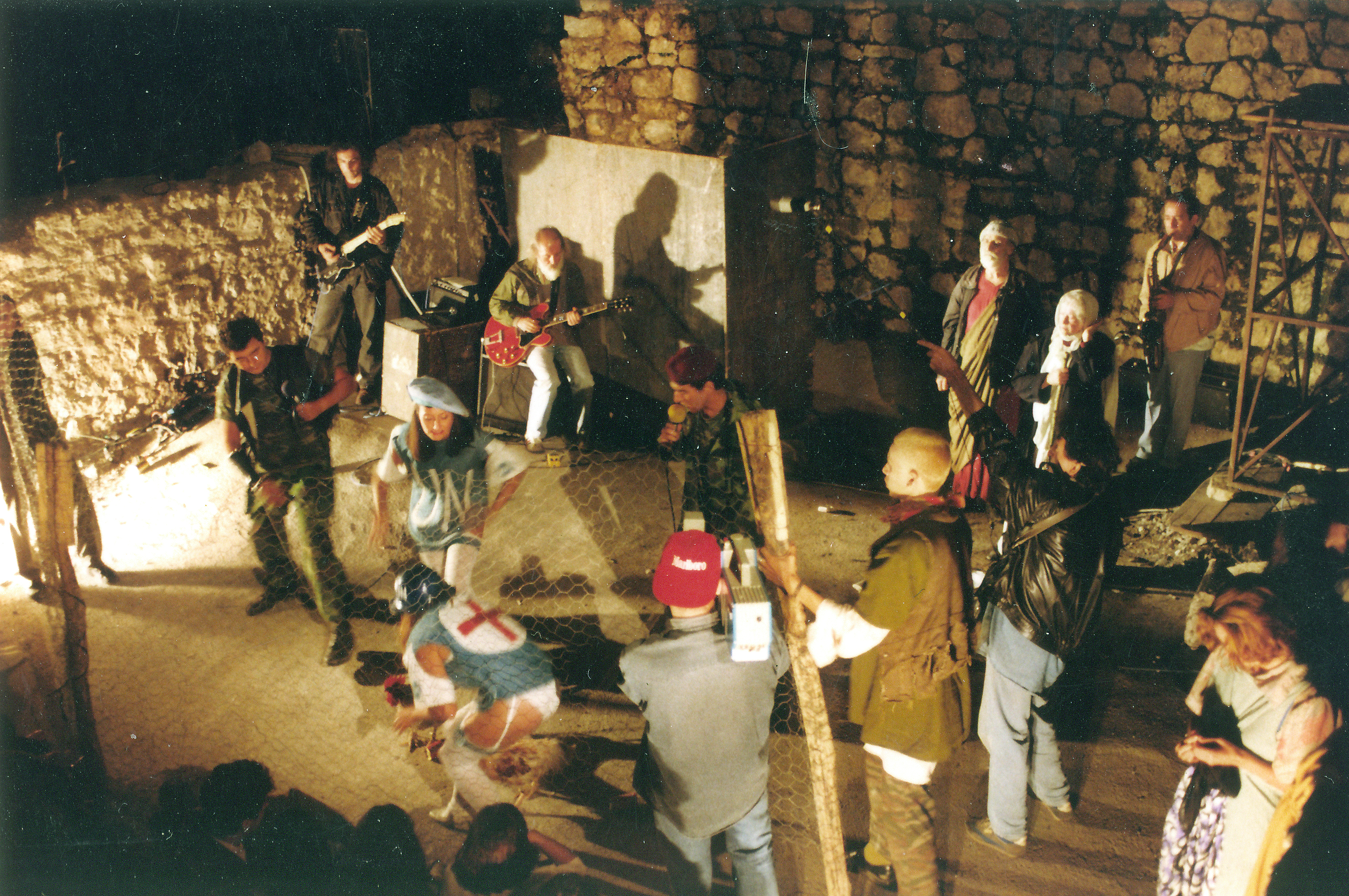 "Antigone" play, directed by Ljubiša Ristić, theater festival "Budva grad teatar (Budva Teadtar City), 90s (Budva, Montenegro)